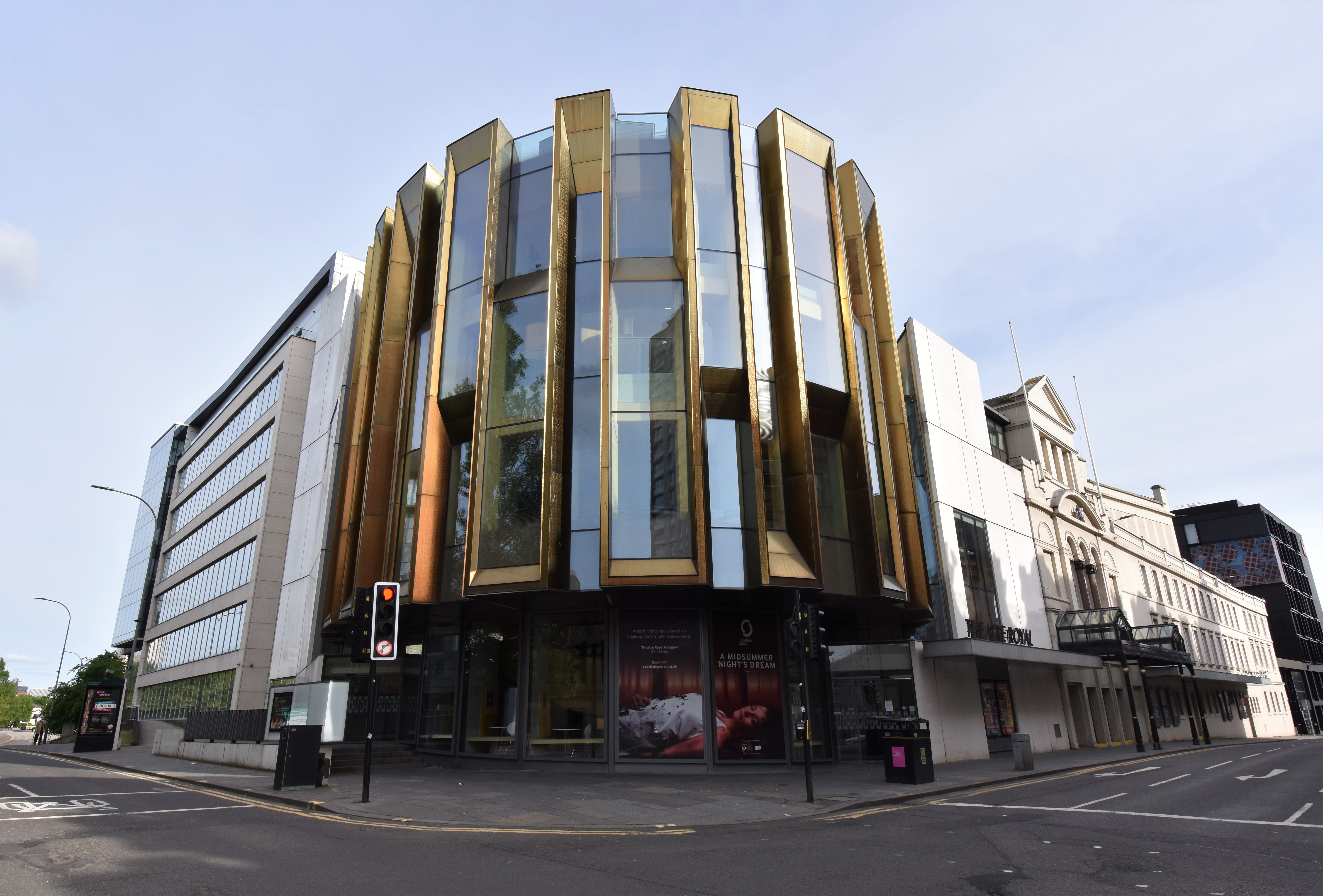 Glasgow. Theatre Royal. 1867, architect: George Bell of Clarke & Bell. Further fire, rebuilt by Charles J. Phipps, 1895. Restored and new foyer - Derek Sugden of Arup Associates, 1974-5. New foyer, Page & Park, 2014.